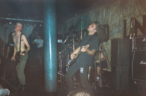 Edit of this photo. Licensing is copied from there: Godflesh live at Camden Underworld, 10 October 1991. User:CelestialWeevil found me via Home of Metal, contacted me, and guided me through this process.